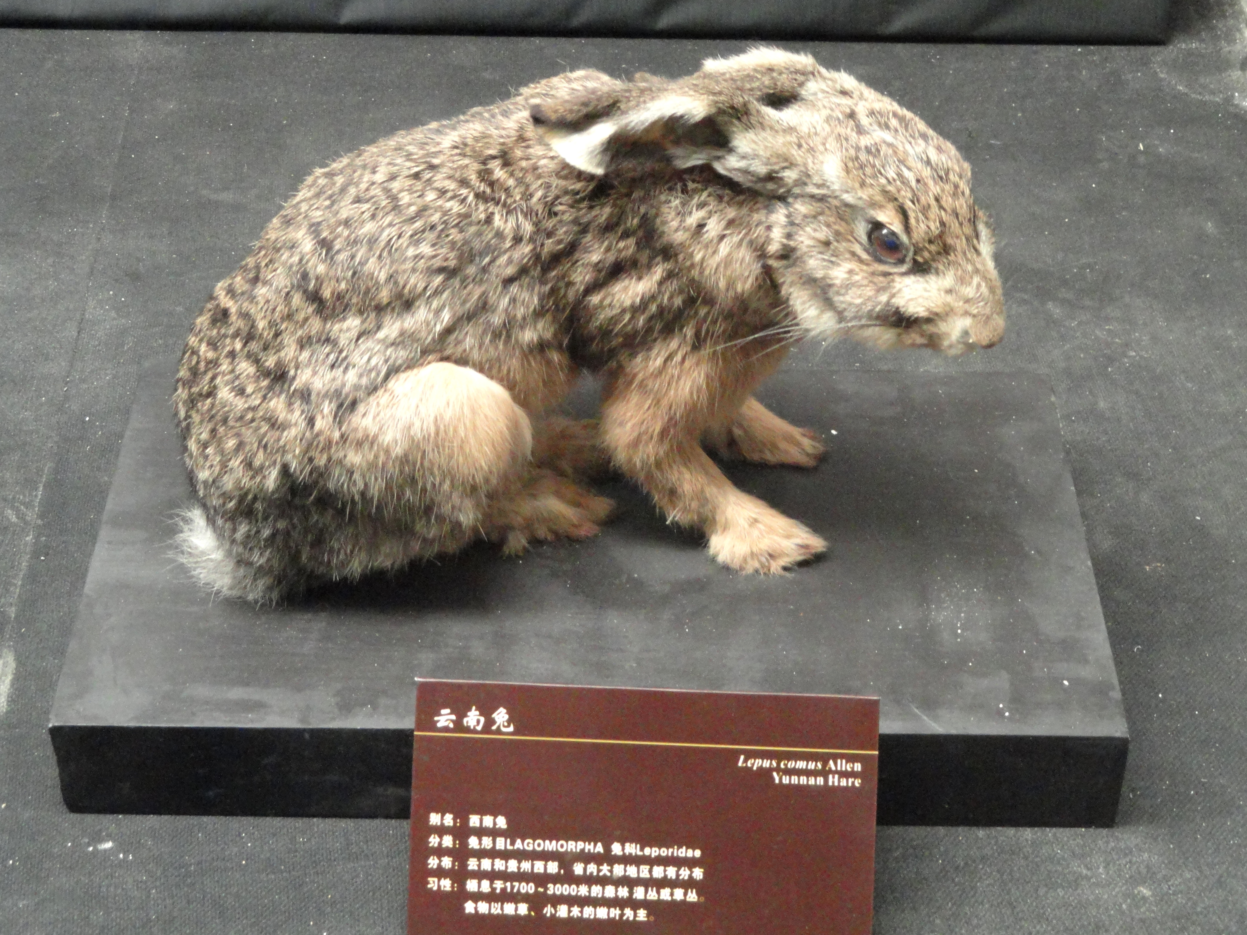 Taxidermy exhibit in the Kunming Natural History Museum of Zoology (昆明动物博物馆), Kunming, Yunnan, China.